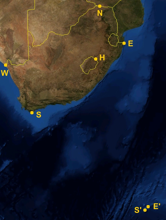 Satellite picture of South Africa, showing its extreme points. Legend: N Northern: Beit Bridge, Limpopo S' Southern: Marion Island, Prince Edward Islands, Western Cape S Southern (continental): Cape Agulhas, Western Cape E' Eastern: Prince Edward Island, Prince Edward Islands, Western Cape E Eastern (continental): Kosi Bay, KwaZulu-Natal W Western: Alexander Bay, Northern Cape H Highest: Njesuthi, KwaZulu-Natal (3.408 m) Lowest: Indian and Atlantic Oceans